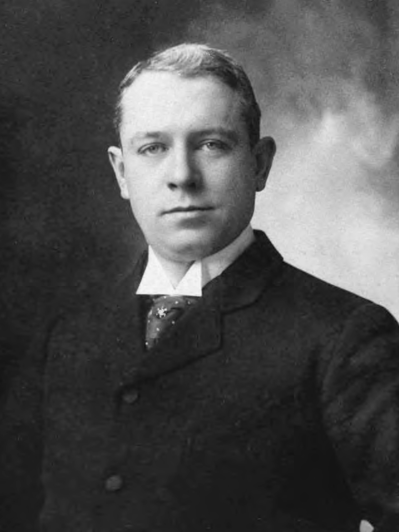 Leander Hamilton McCormick (1859–1934) was an American author, inventor, art collector and sculptor. His father was Leander J. McCormick (1819–1900), whith with brother Cyrus ran a large company making agricultural machinery in Chicago.